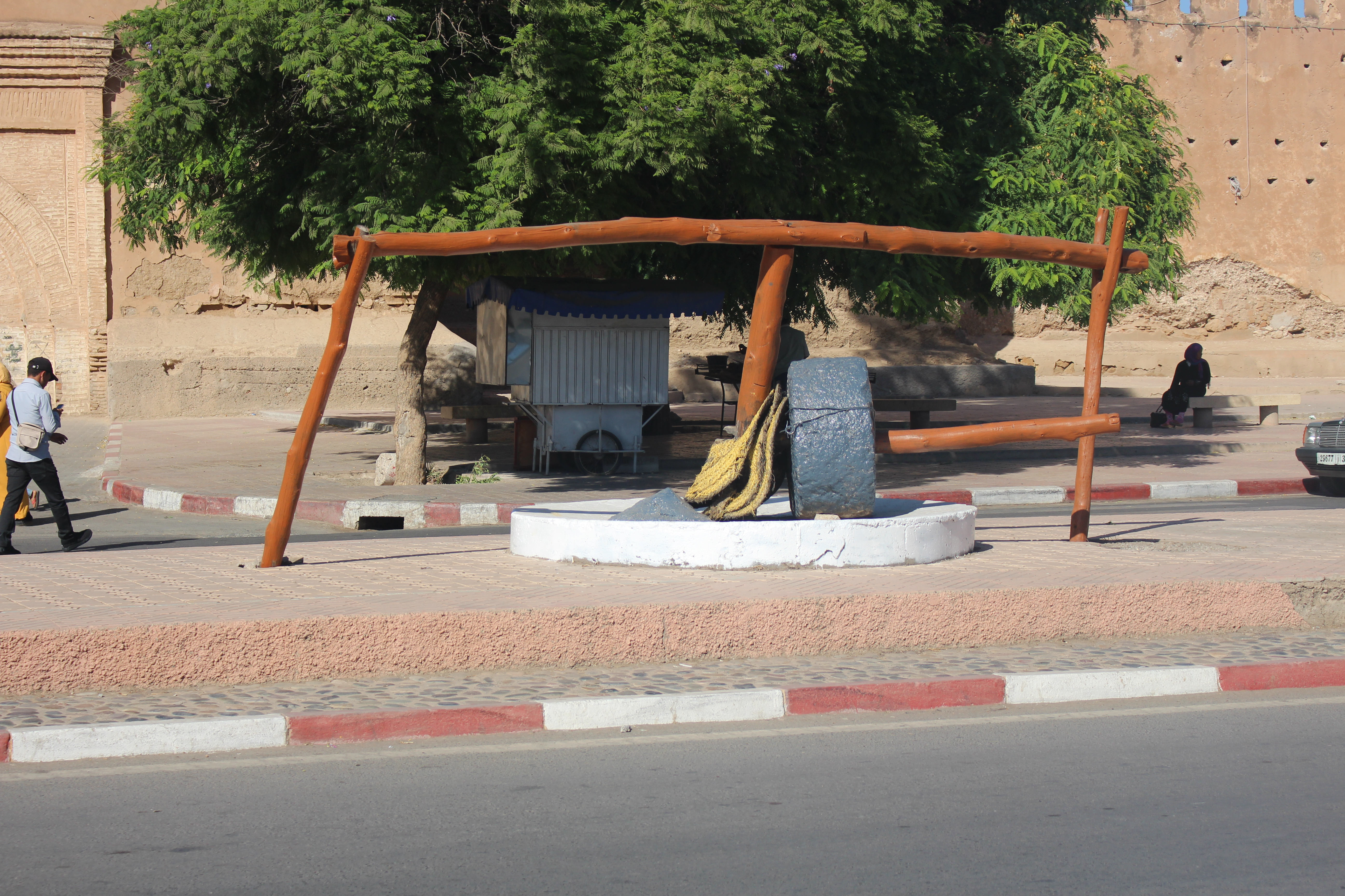 This old mill is located in Al Kasbah, inside the walls of Taroudant city